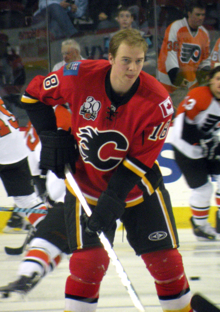 Calgary Flames forward Matt Stajan prior to a National Hockey League game against the Philadelphia Flyers.